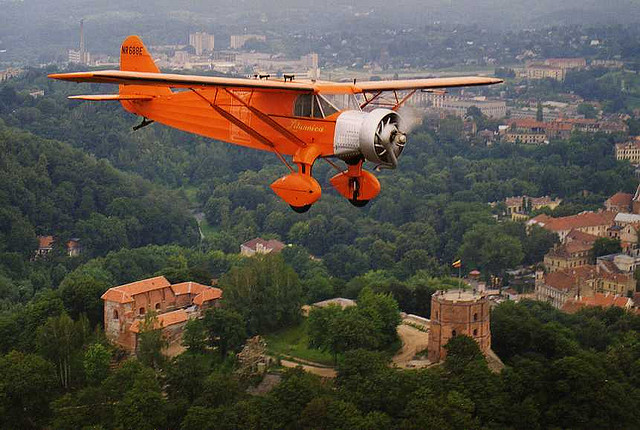 Bellanca CH-300 Pacemaker replica (NR688E) "Lituanica", 1983